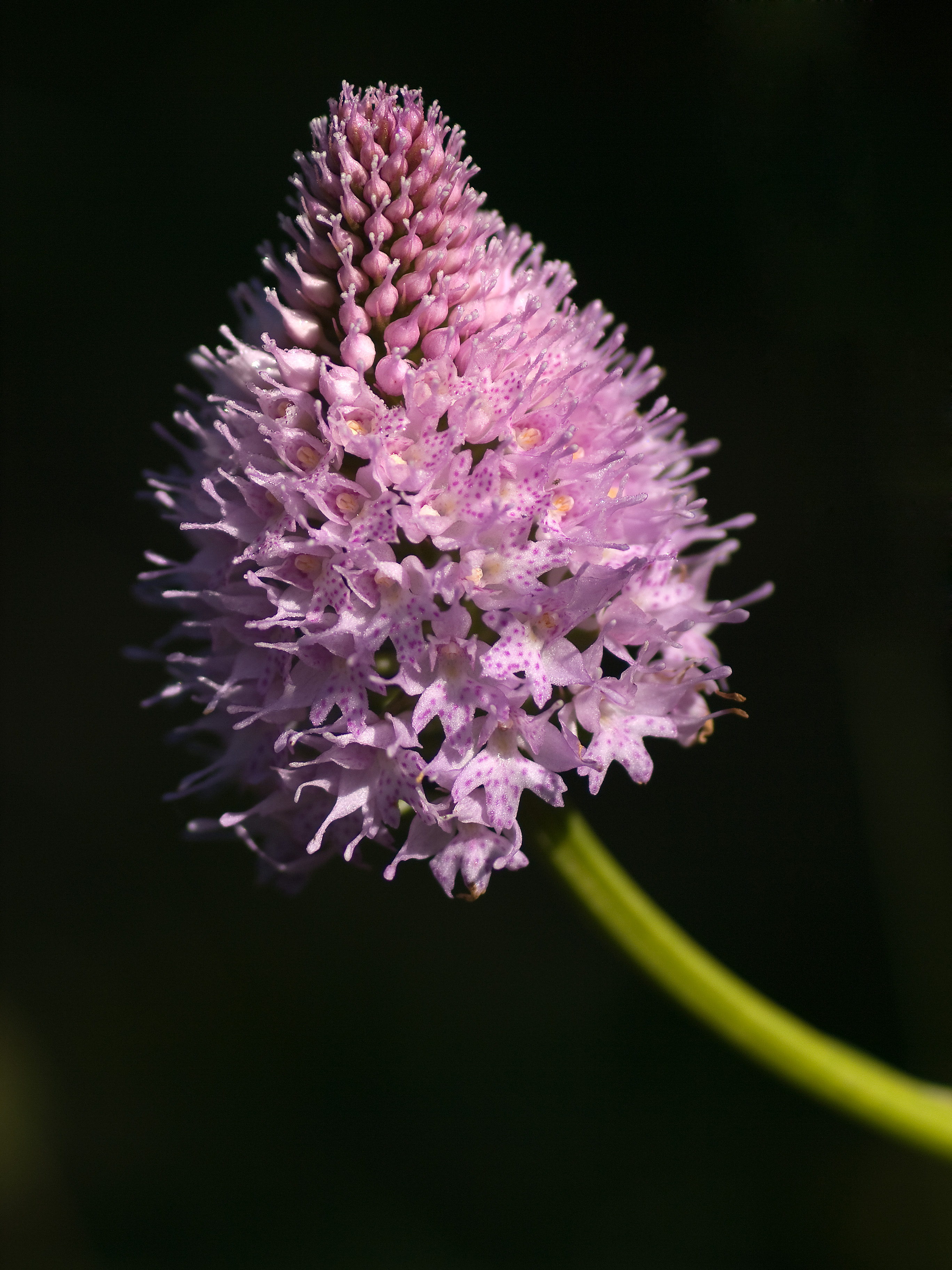 Traunsteinera globosa; Picture taken near Ehrwald/Austria